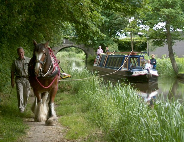 Horse drawn cruising on the Montgomery Canal. Buddy is towing the narrow boat SIÂN. For more details of this relaxing holiday